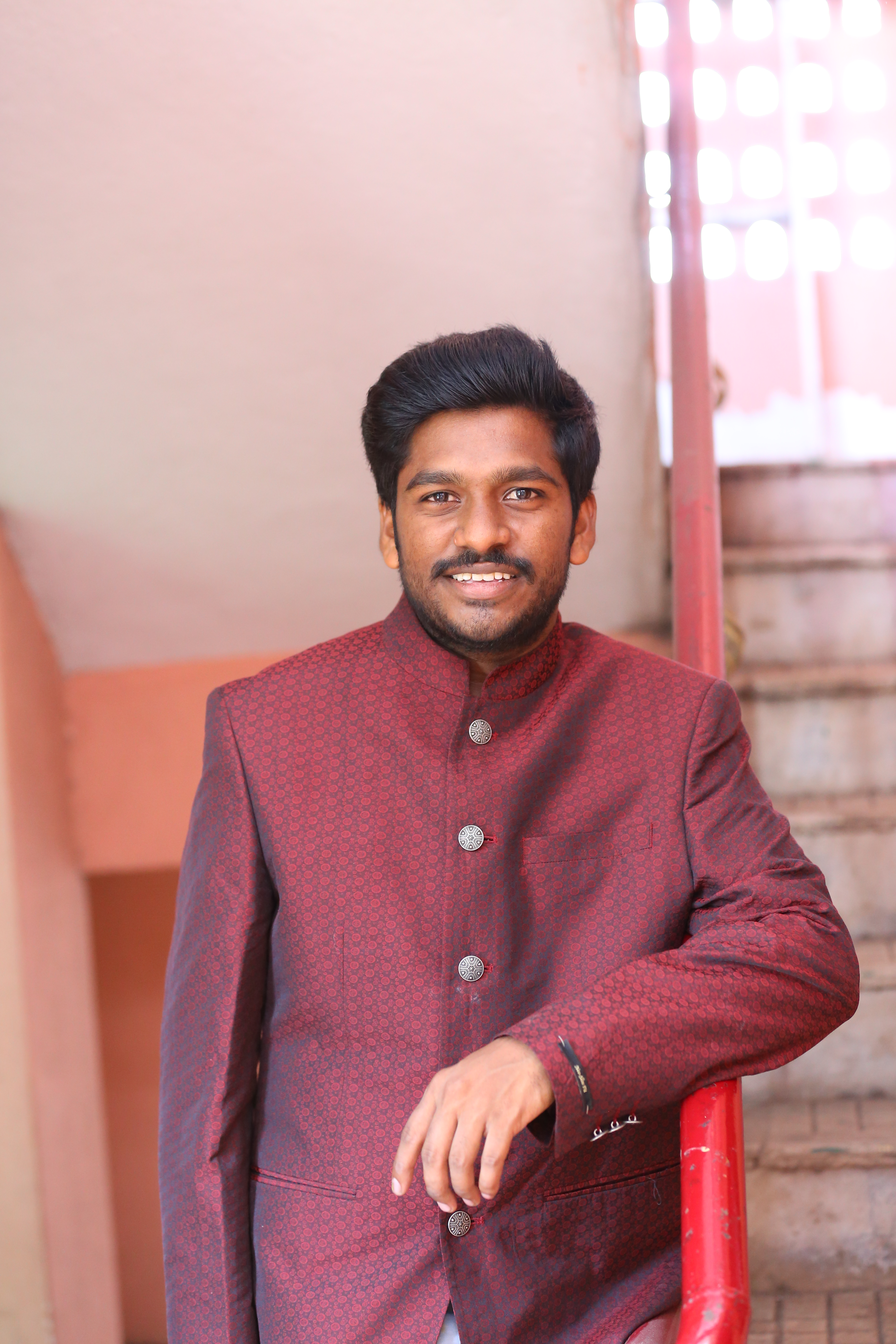 Gattem Venkatesh received a Guinness record for smallest Empiore statue building on toothpic